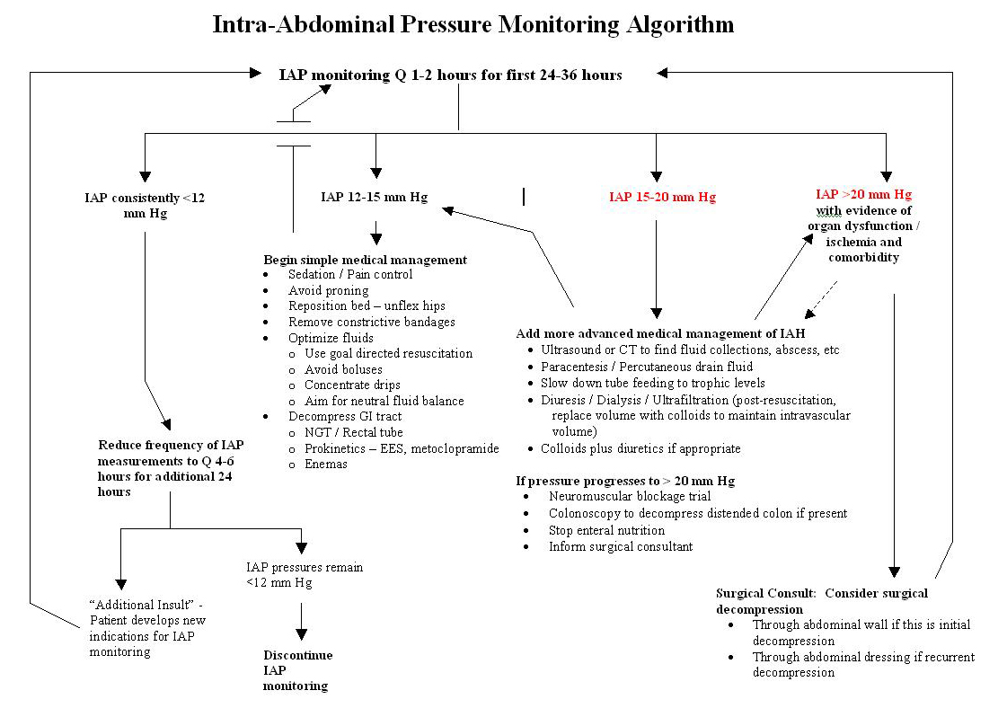 This algorithm provides a visual reference for an approach to managing critically ill patients with intraabdominal hypertension. It was written by this author in 2005 and modified with the latest data in 2011. Another similar international guideline exists and can be downloaded from the World society of abdominal compartment syndrome web site.